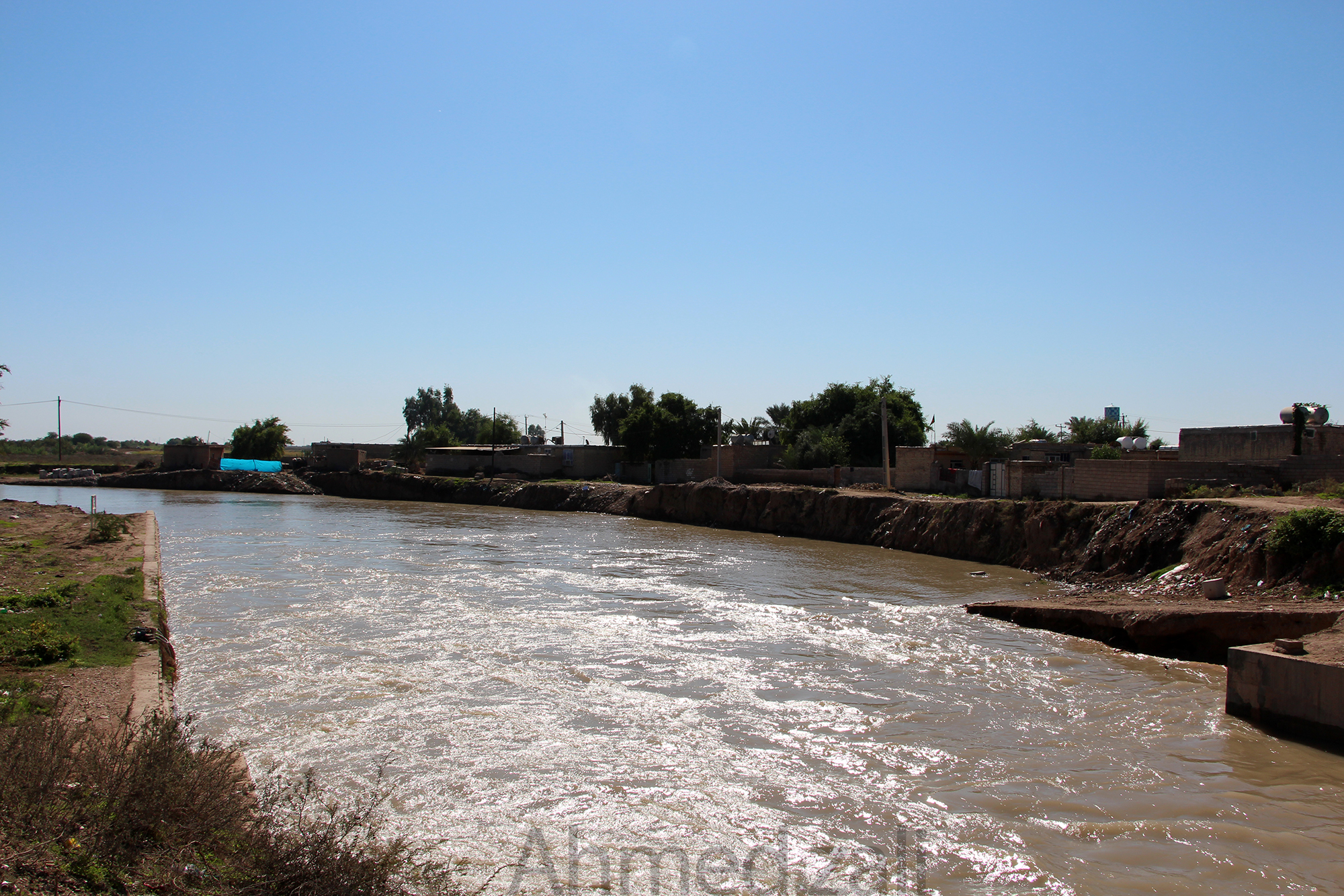 رود شاوور - بعد از عبور از سد شاوور